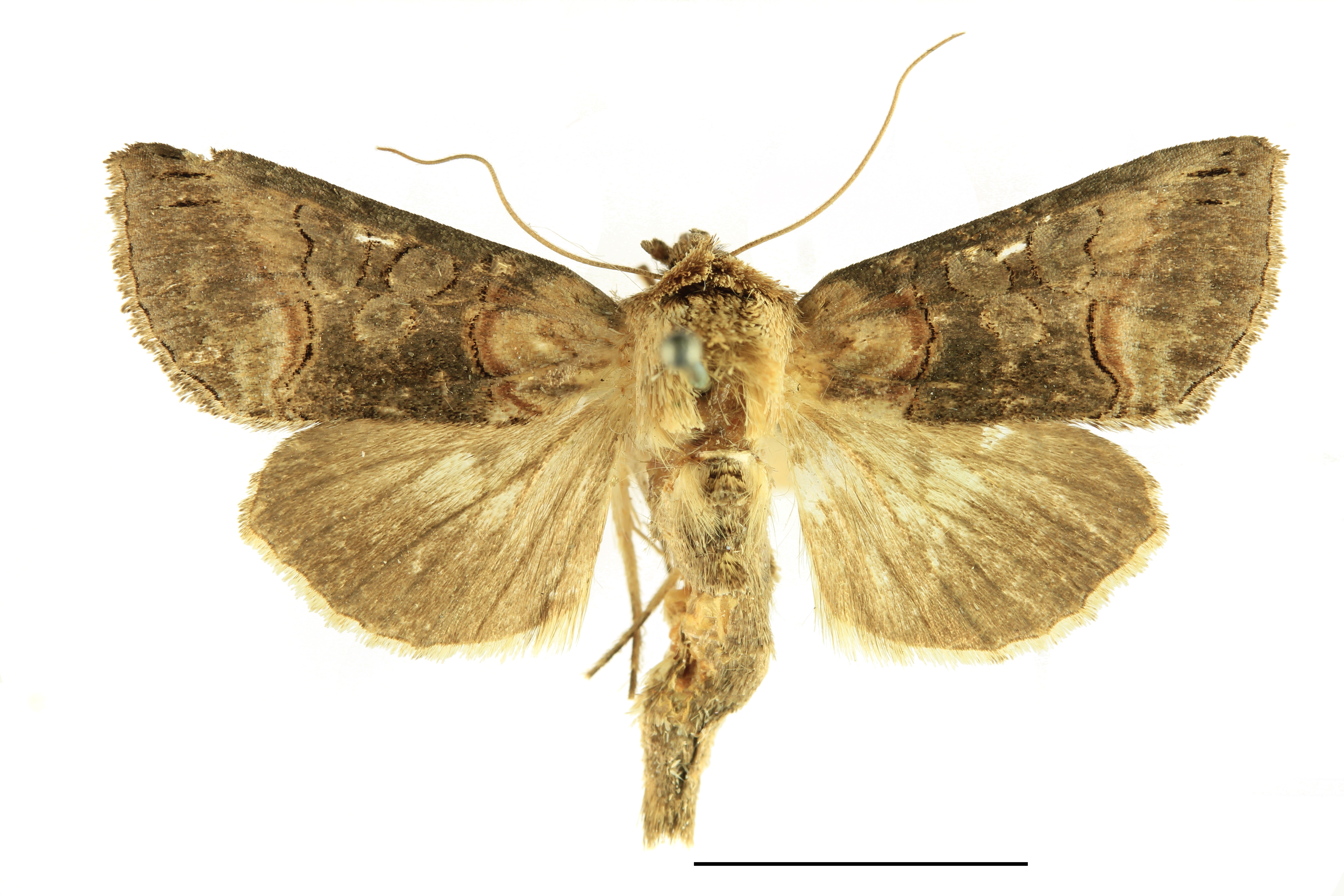 Abrostola tripartita, Insect collection SLU, Uppsala